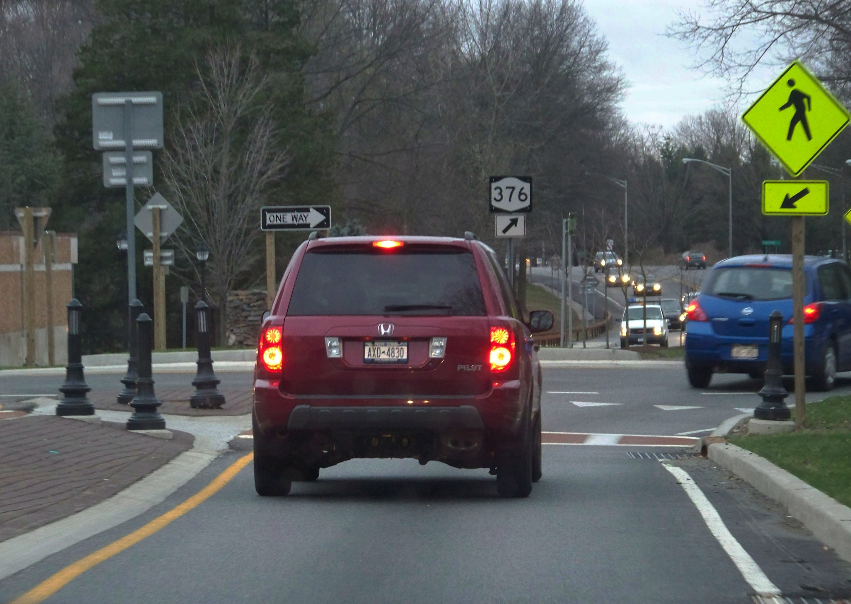 NY 376 roundabouts near Vassar College in Poughkeepsie, NY